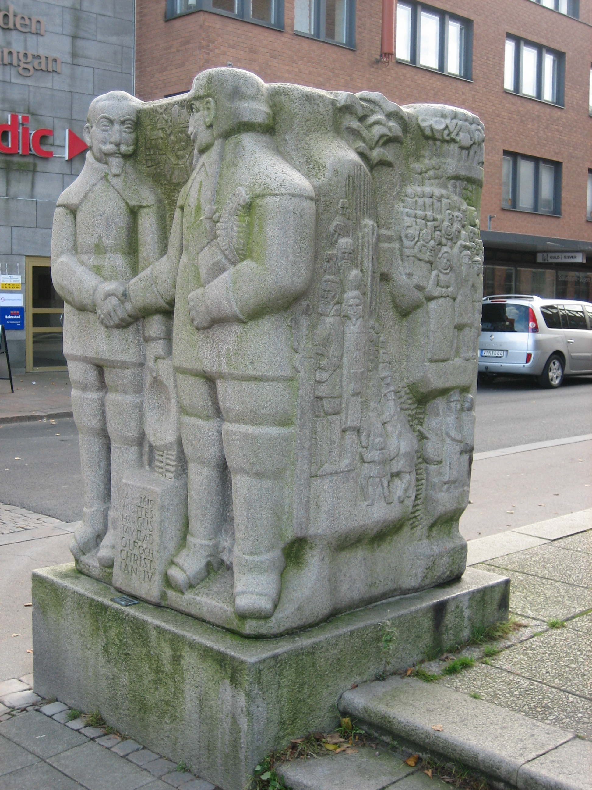 The summit 1619 between the swedish king Gustav II Adolf and danish king Christian IV.